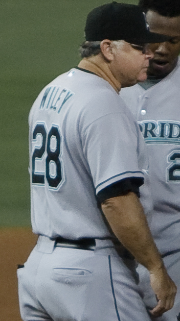 Pitching coach Mark Wiley and Florida Marlins players visit Josh Johnson on the mound during a 2009 game at Nationals Park in Washington, D.C.